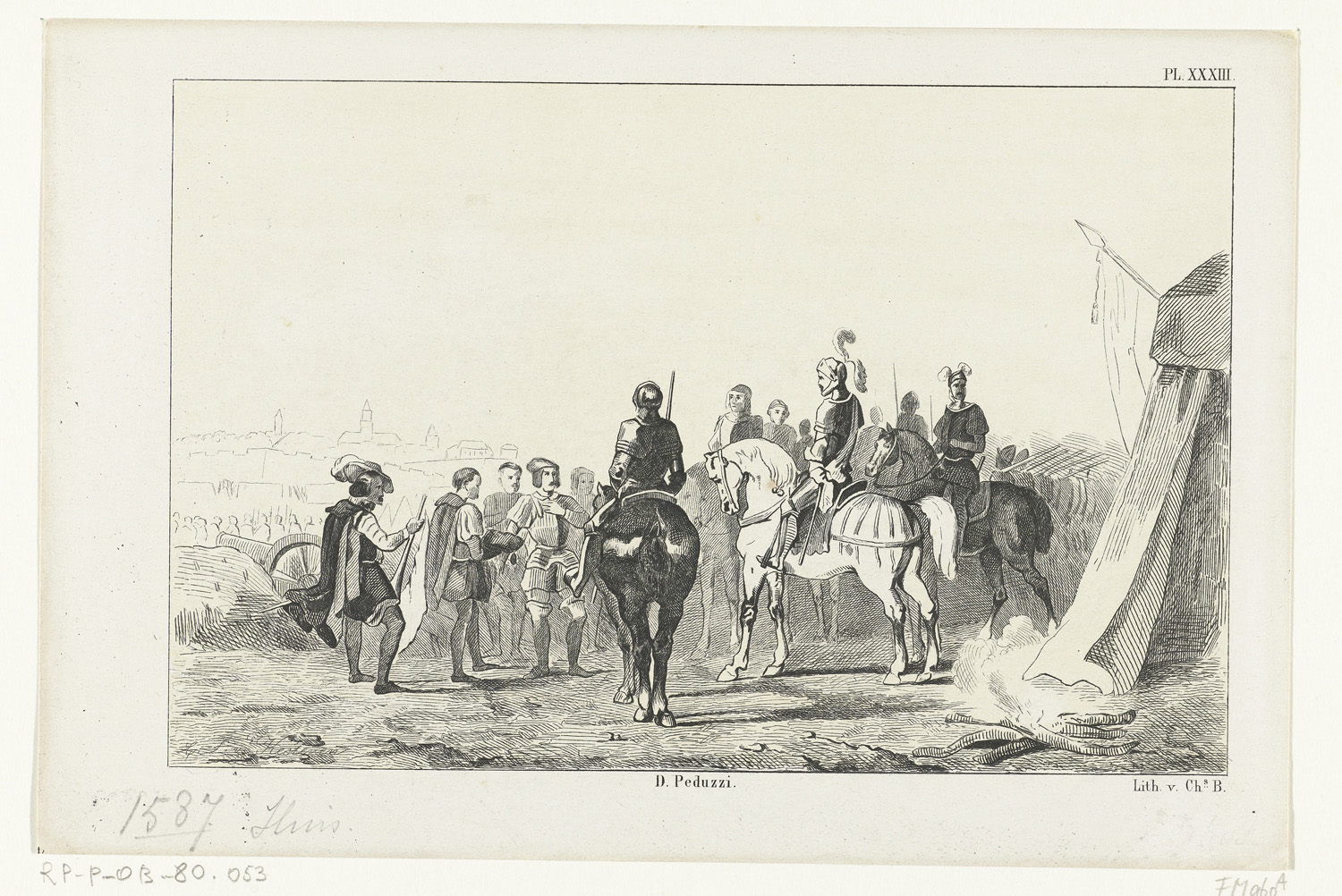 Surrendering of Sluis to Parma, 1587